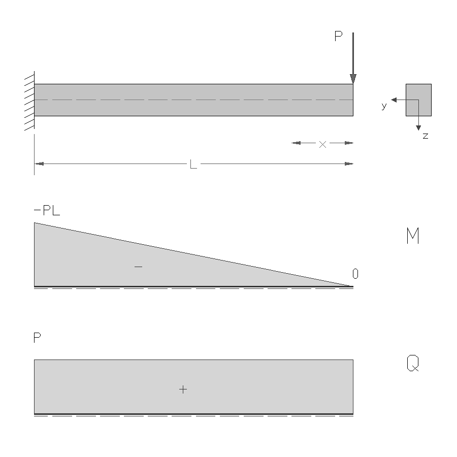 Cantilever beam under point load at the free end with moment and shear diagram.